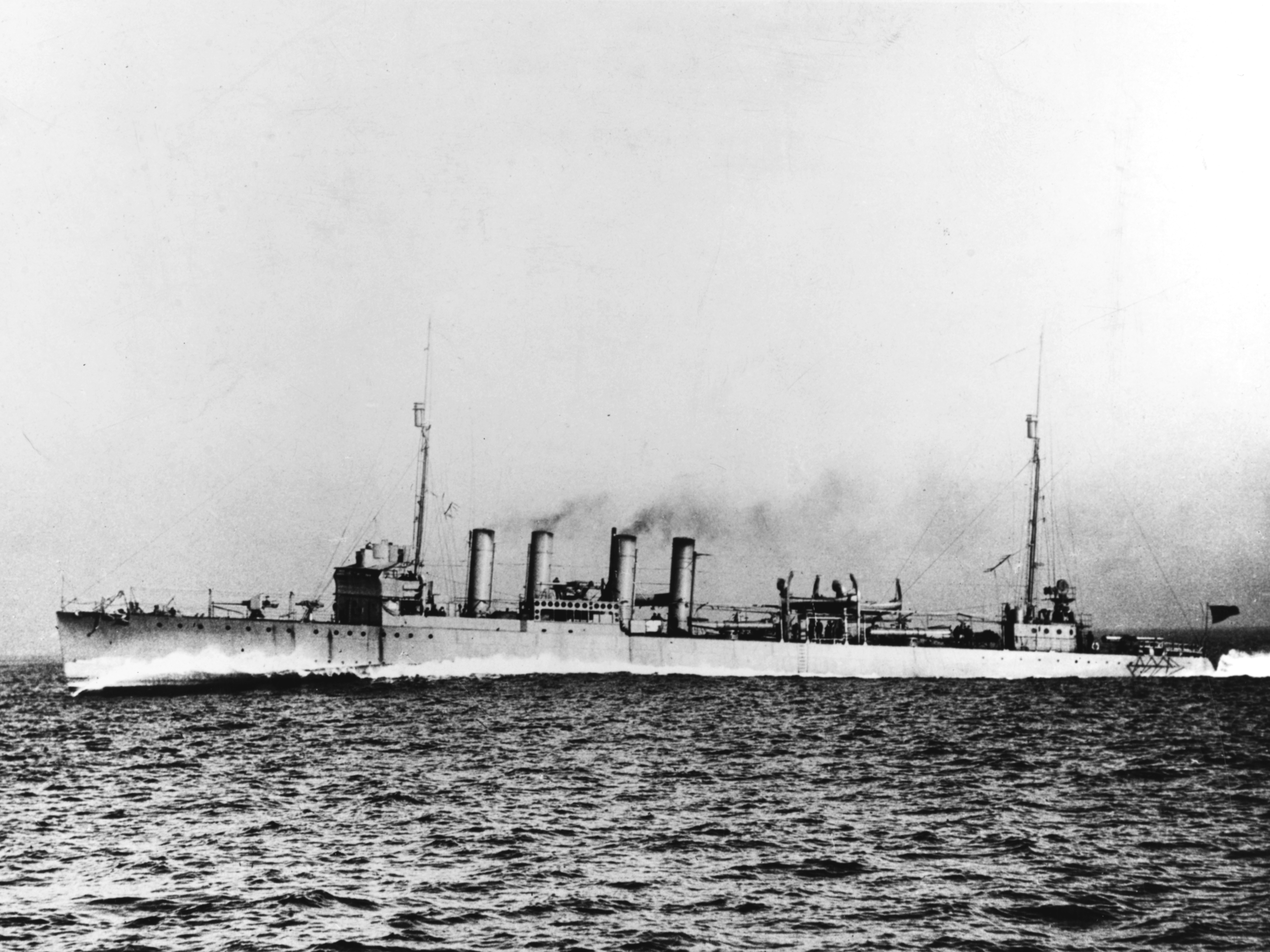 The U.S. Navy destroyer USS Clemson (DD-186) steaming at high speed, probably while running trials in 1919.